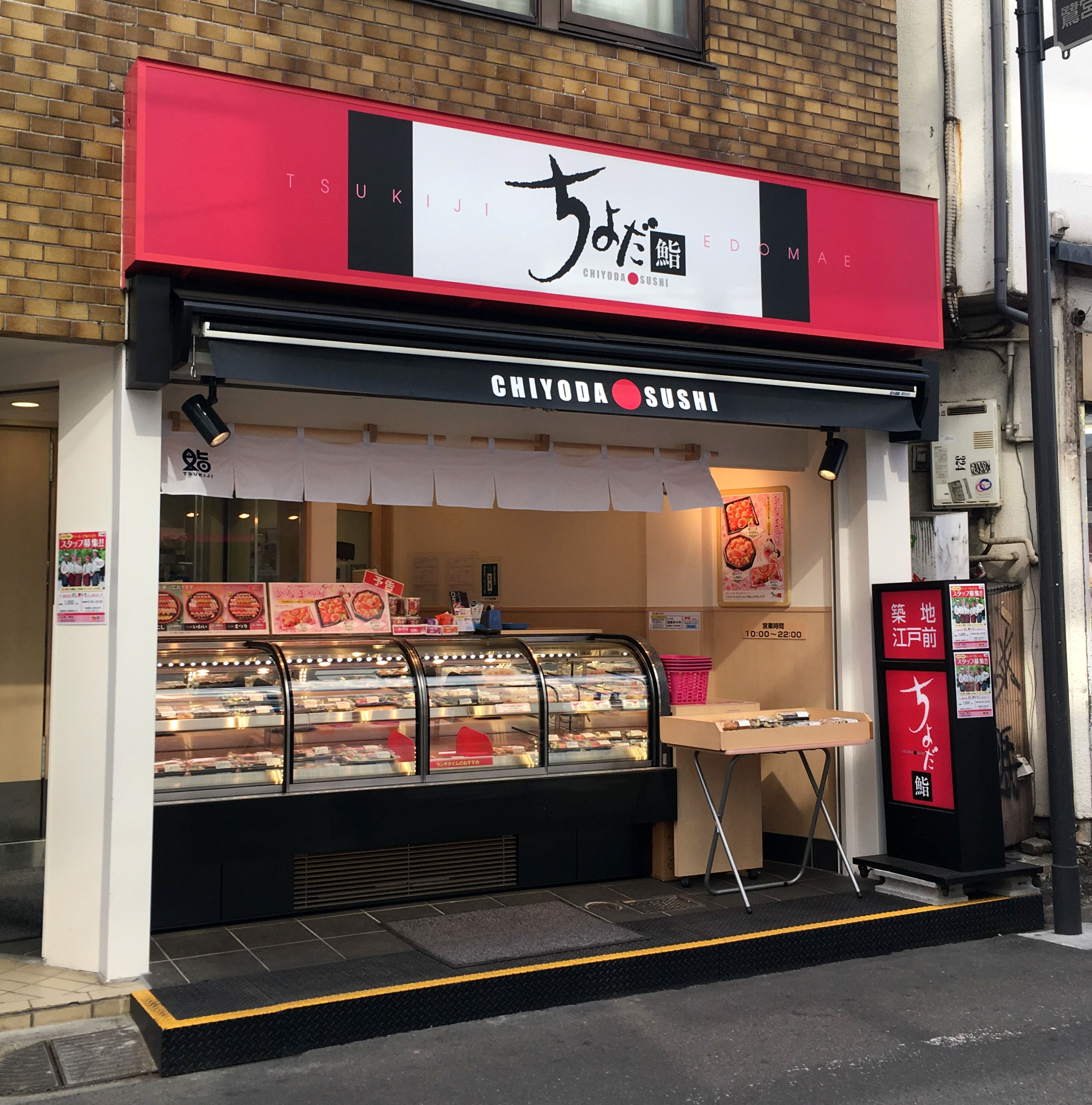 Chiyoda sushi (Take-out restaurant of sushi) Saginomiya branch (Tokyo, Japan)